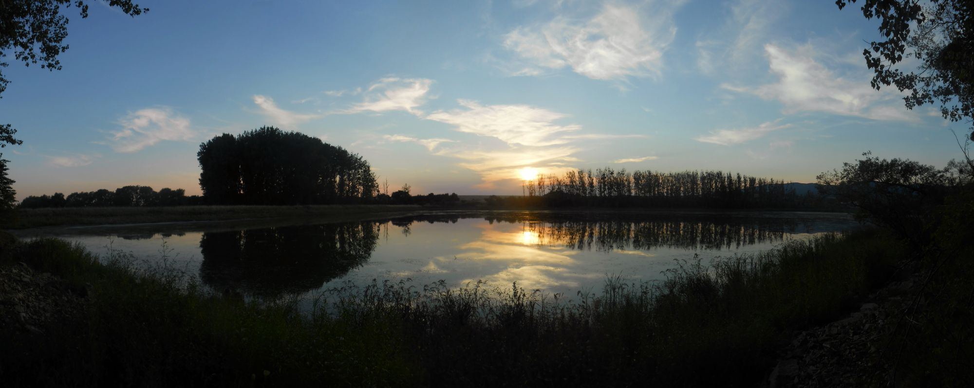 Sunset over a fishpond near Oreské village.